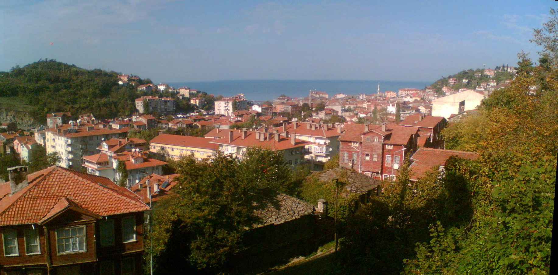 View of Inebolu